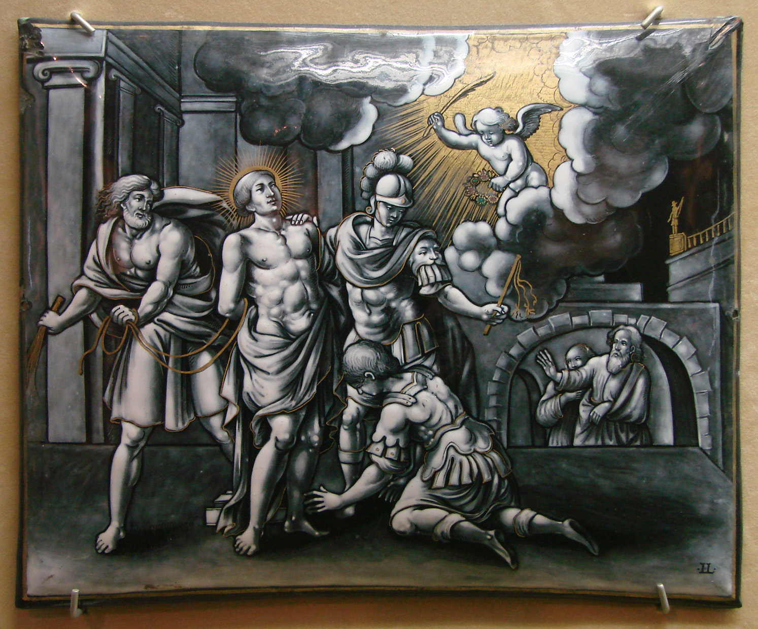 Limoges enamel, by Jules Laudin (about 1663):a martyrdom. Musée Saint Remi, Reims, France.